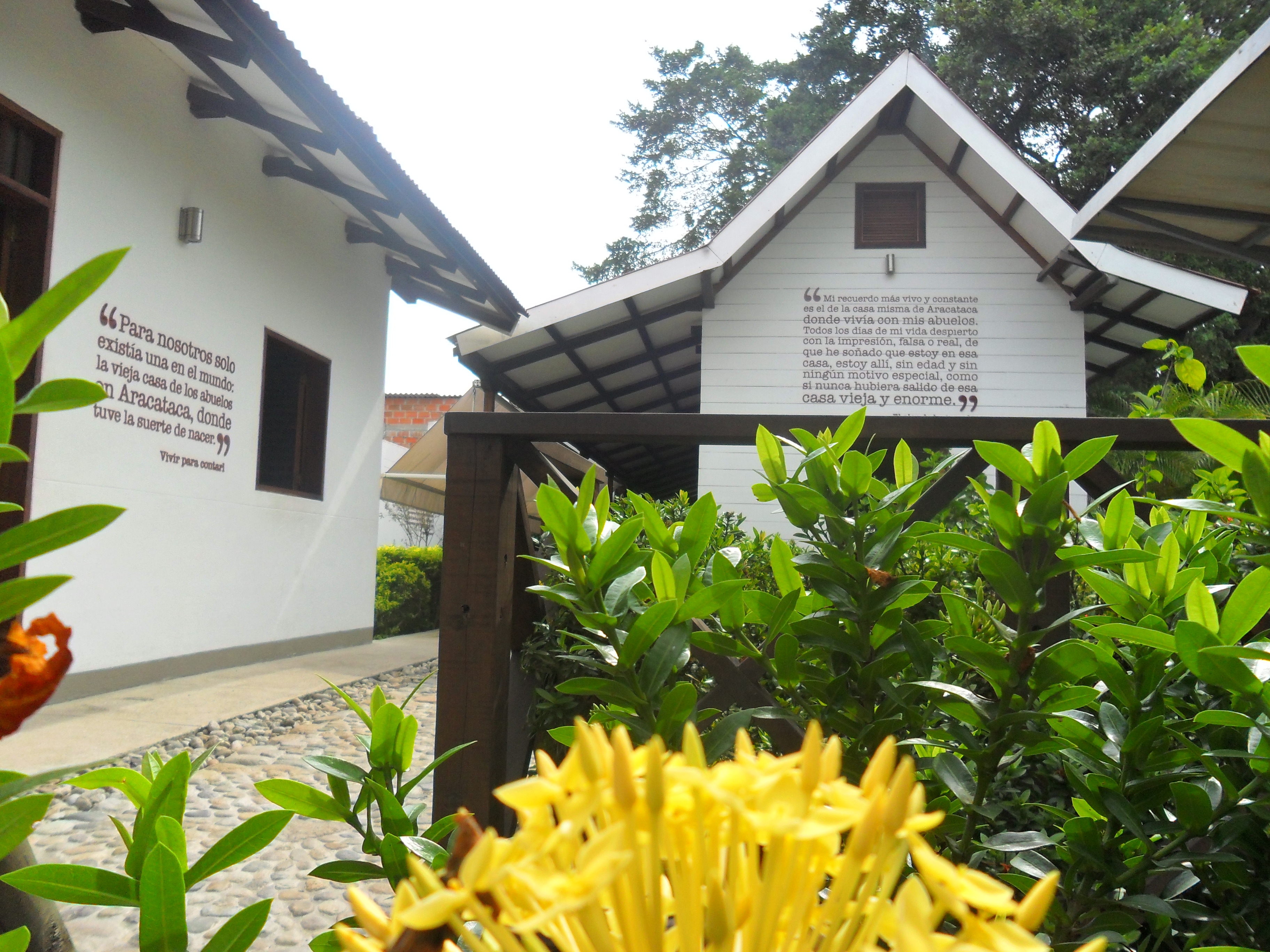 The Museum House where Garcia Marquez was born and where he grew up....